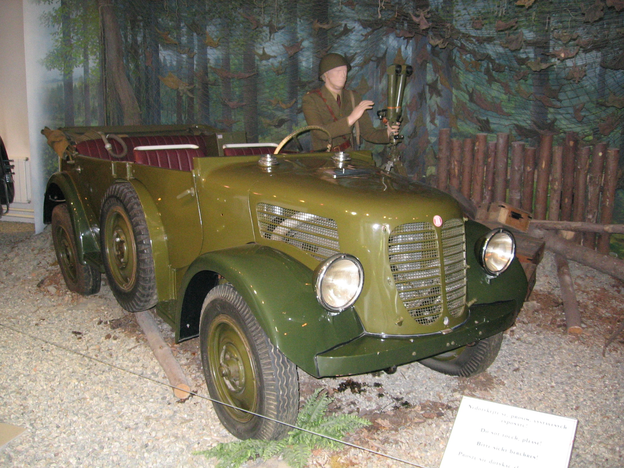 a prototype military Tatra V809, year 1939